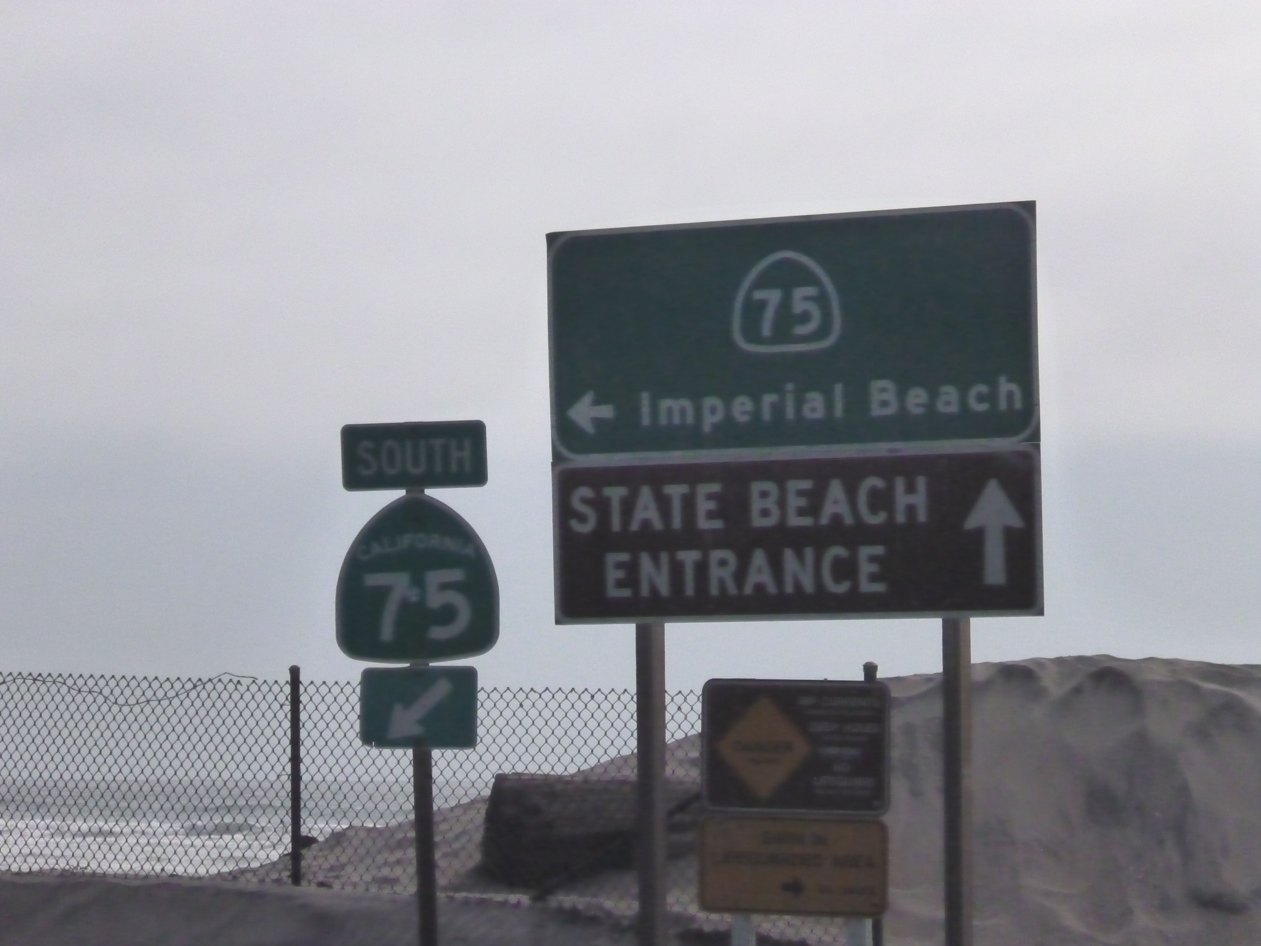 California Route 75 Sign and Marker near Coronado, CA.